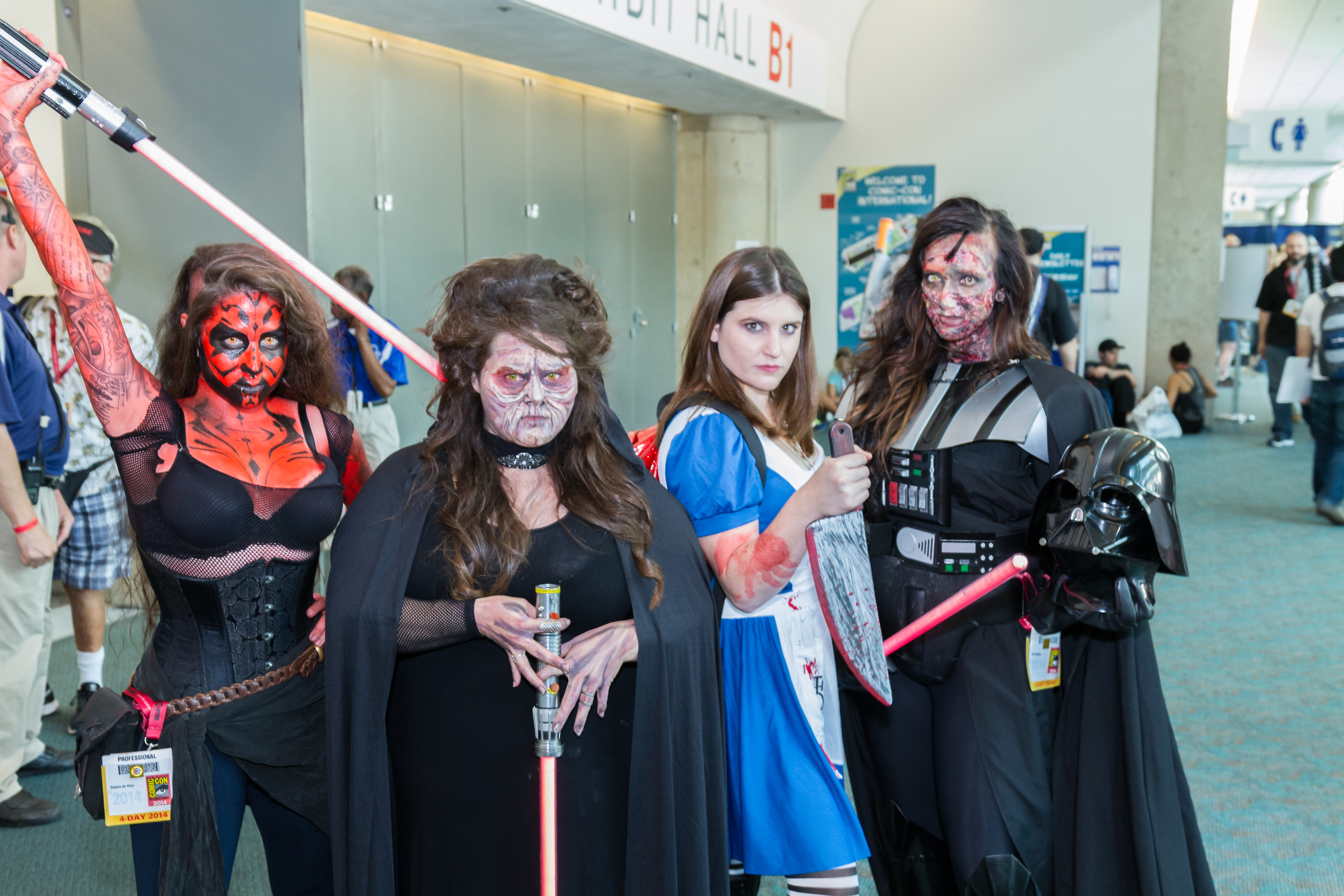 Cosplay at San Diego Comic-Con (SDCC 2014).